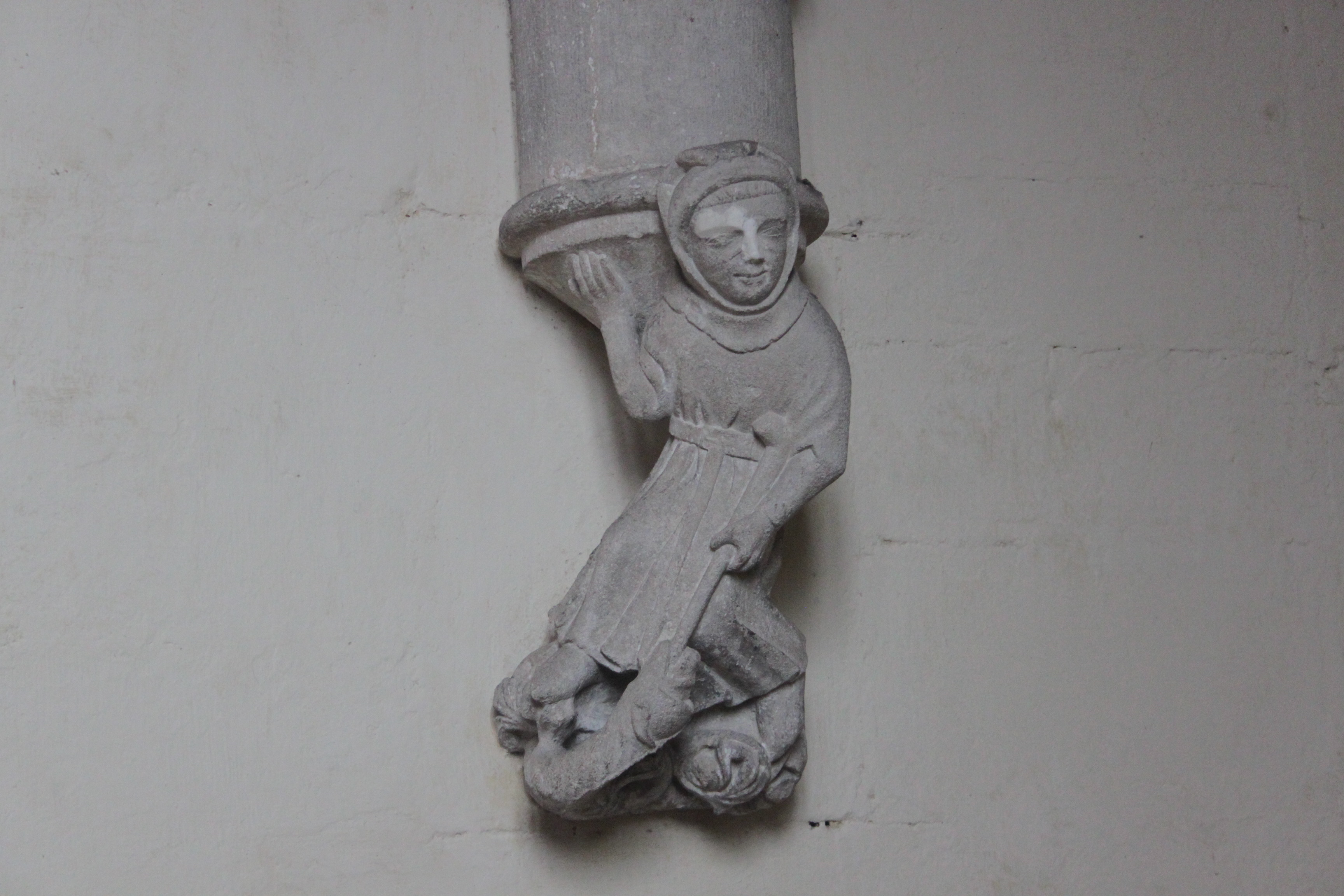 A statue on the chapter house steps at Wells Cathedral